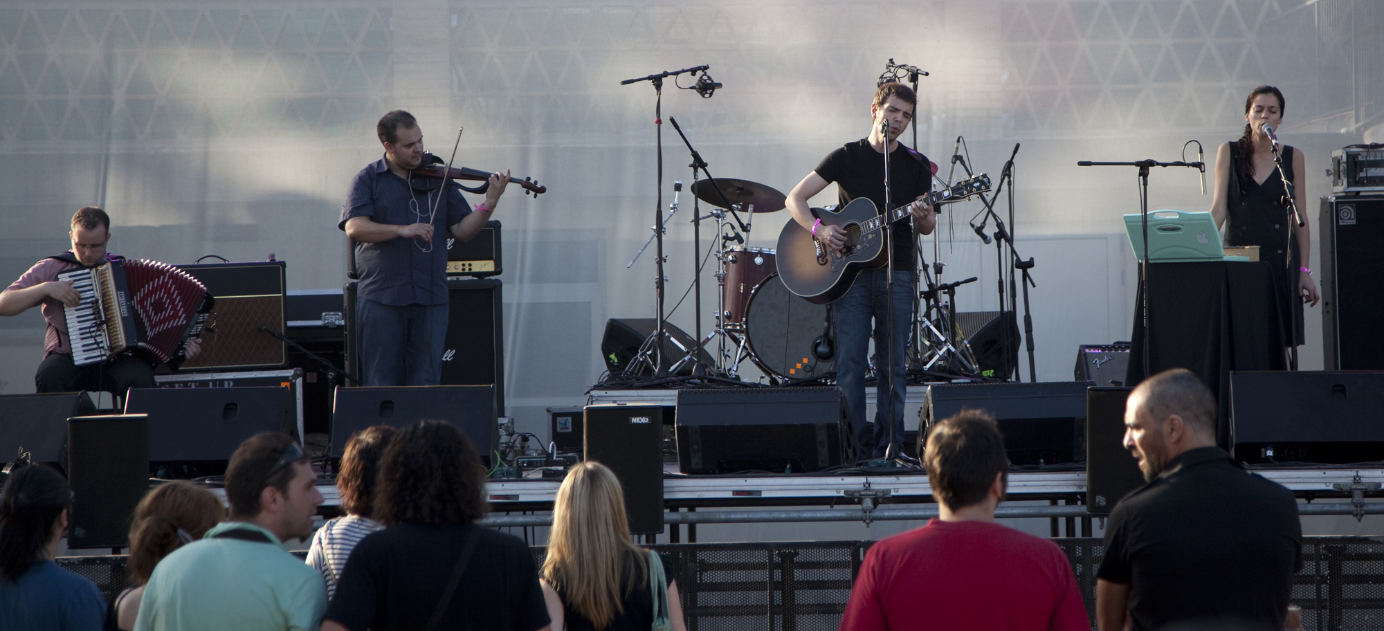 Pajaro Sunrise live show at Faraday Festival 2010